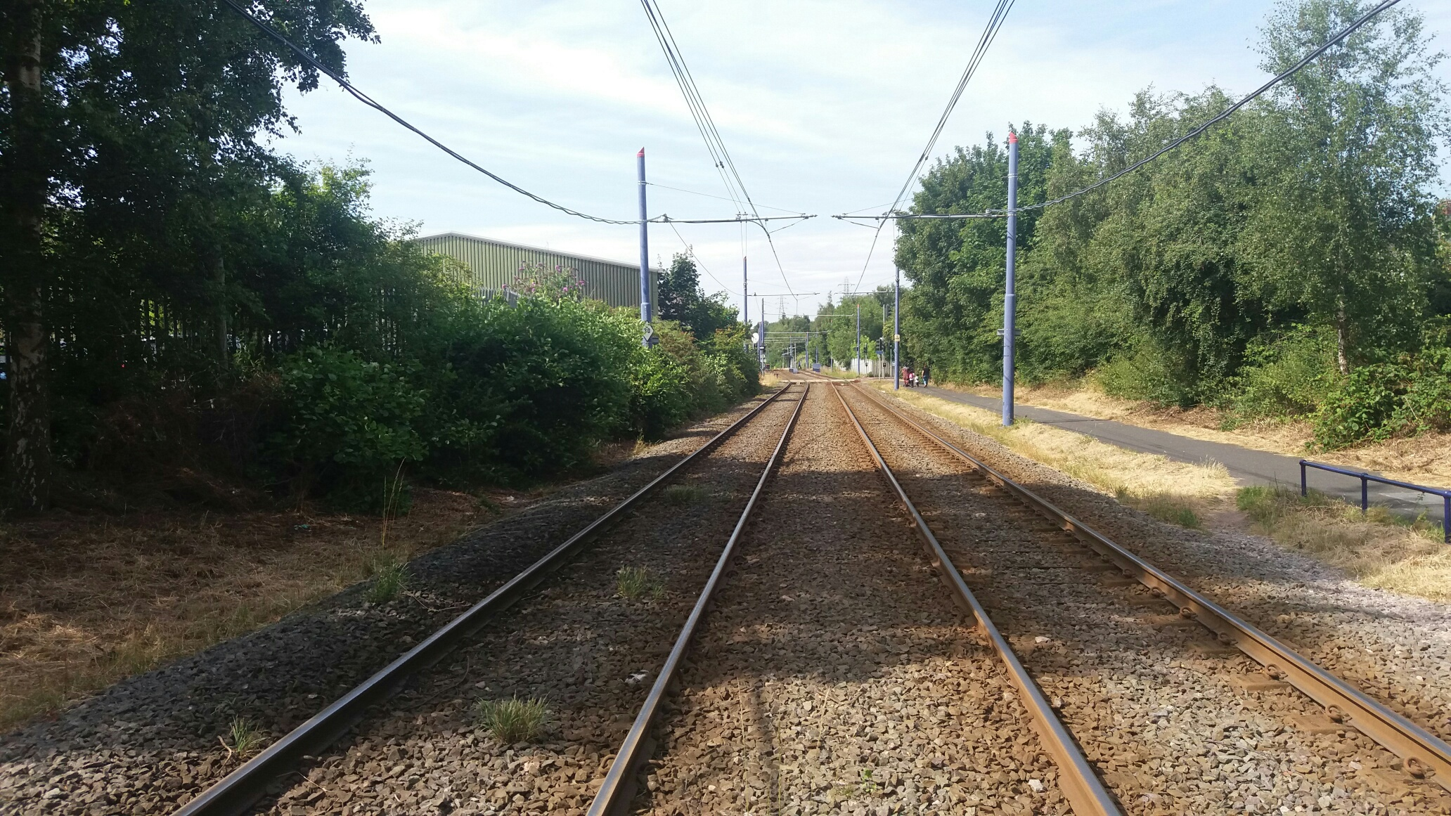 My own.